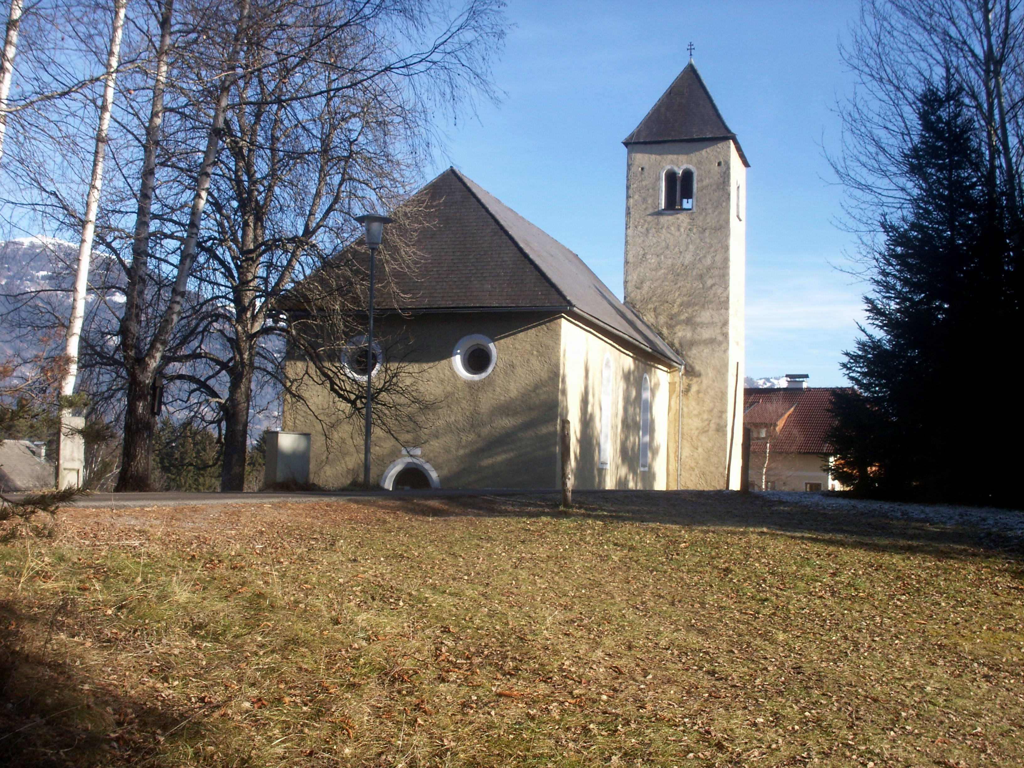 Church of St. Wolfgang ob Seeboden / Carinthia / Austria.